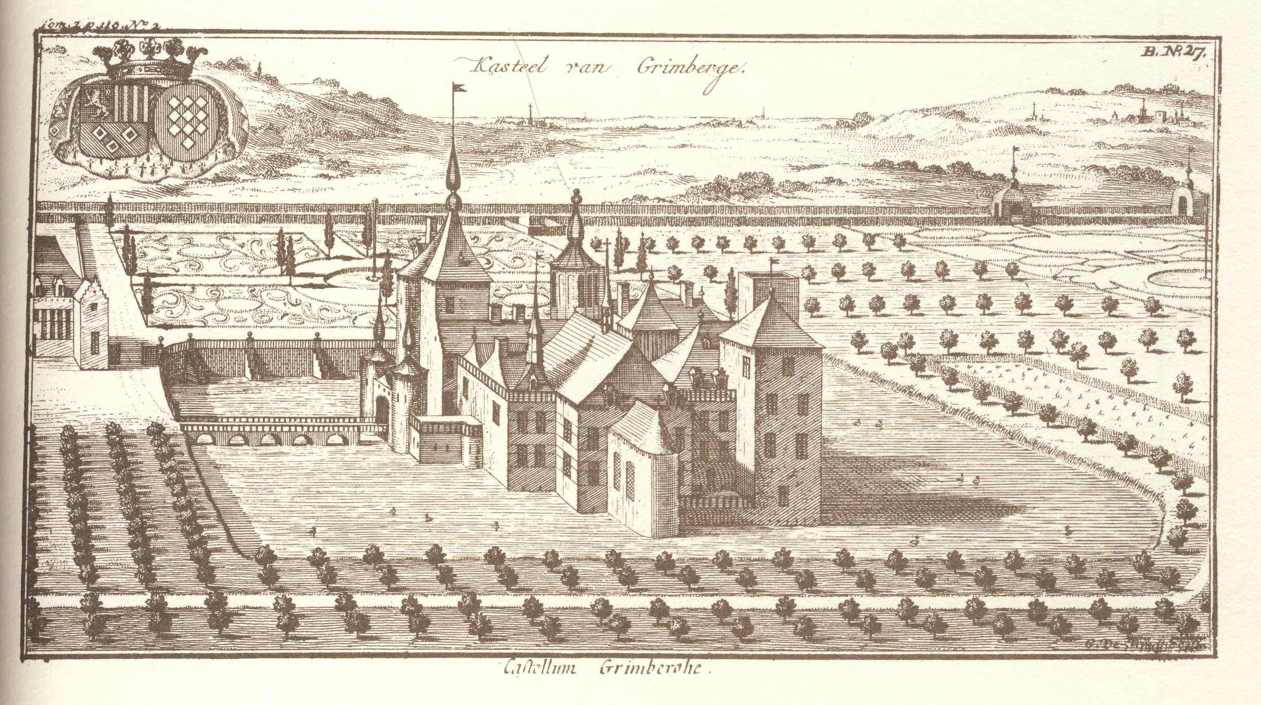 The Grimbergen (Prince)Castle was built in the beginning of the 17th century on the remnants of the medieval Berthouts Castle. The title Prince Castle dates back to Philip-Frans van Bergen, Prince of Grimbergen. In 1944, the castle was burnt by the retreating German forces and the current ruine is not open for the public.